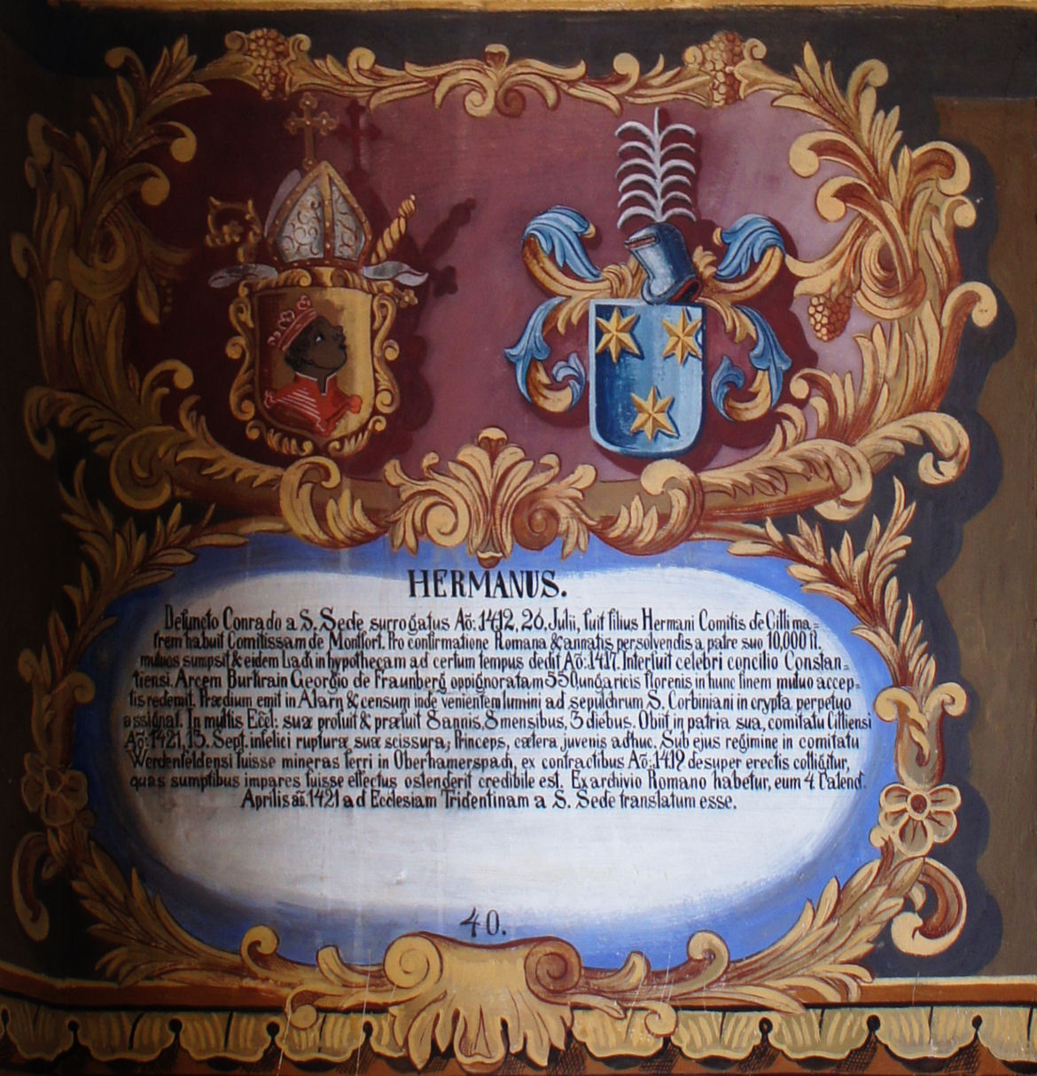 Wappentafel von Hermann von Cilli, Fürstbischof von Freising, im Fürstengang zwischen Fürstbischöflicher Residenz und Freisinger Dom. Links das geistliche, rechts das persönliche Wappen, darunter ein lateinischer Text mit kurzer Biographie.